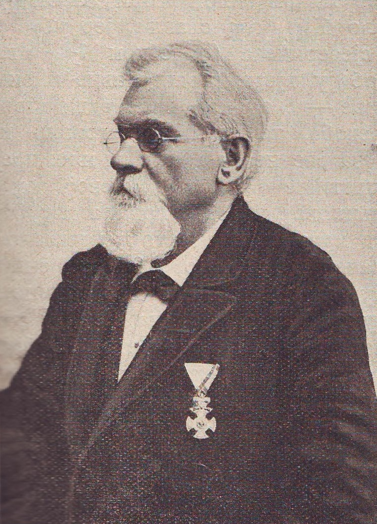 A photograph of Aleksandar Sandić (1836-1908), a Serbian philosopher, philologist, historian, writer, cultural worker, politician and author of the Hymn to Saint Sava. Srpski (latinica): Fotografija Aleksandra Sandića (1836-1908), srpskog filozofa, filologa, istoričara, književnika, kulturnog radnika, političara i autora Himne Svetom Savi.